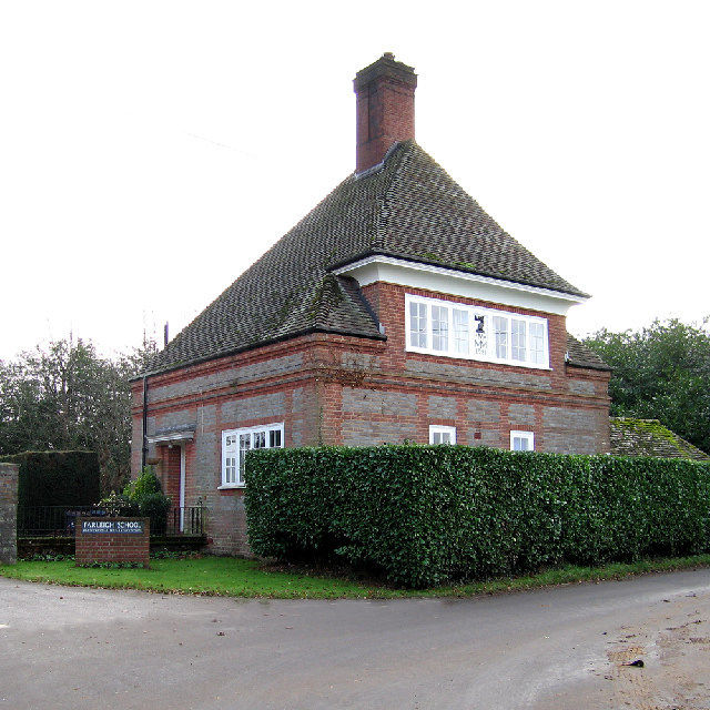 Farleigh School Gatehouse, Red Rice, near Andover. Catholic boarding and day Prep School of 400 children situated in 60 acres of parkland. Note. This is on the border of square SU3342.